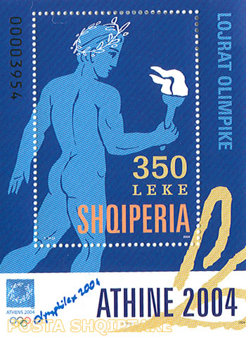 A 2004 Albanian stamp commemorating the 2004 Summer Olympics.